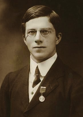 An image of Ronald Fisher in 1913